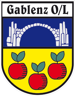 Coat of arms of Gablenz (Oberlausitz)